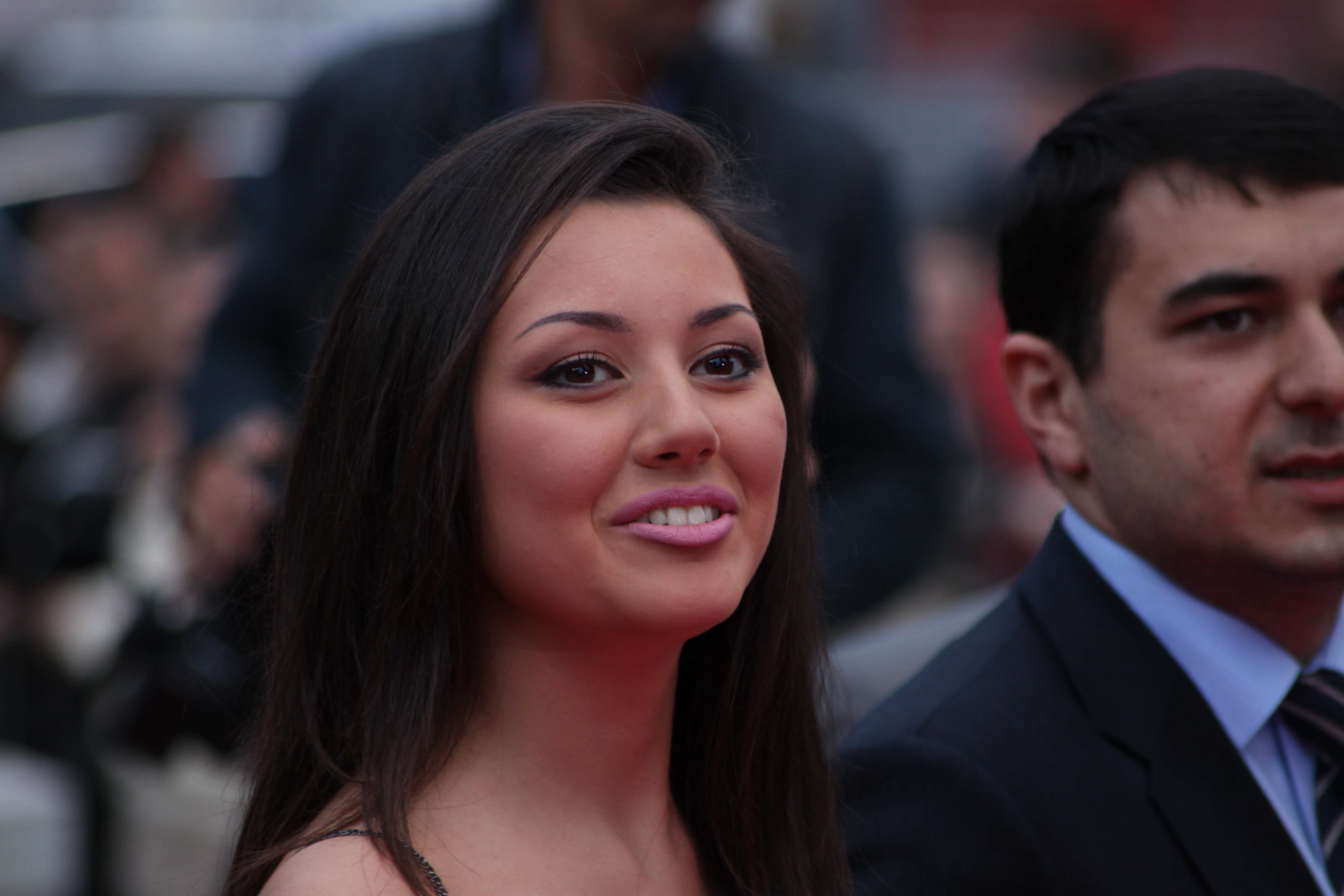 Safura Alizadeh representing Azerbaijan at Eurovision Song Contest 2010 during a Welcome Party at City Hall in Oslo, Norway.